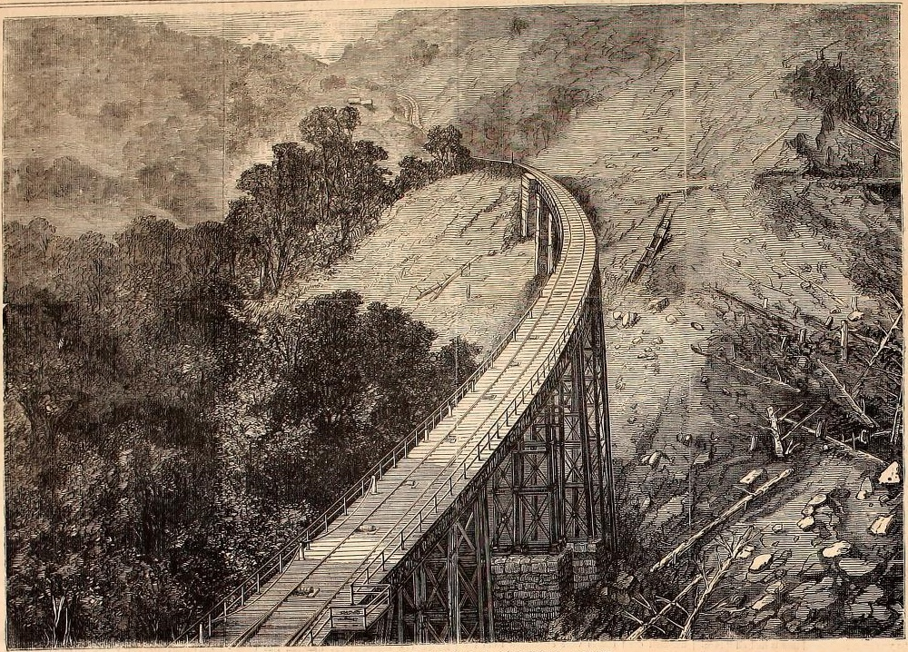 THE SERRA VIADUCT, ST. PAUL'S RAILROAD, BRAZIL